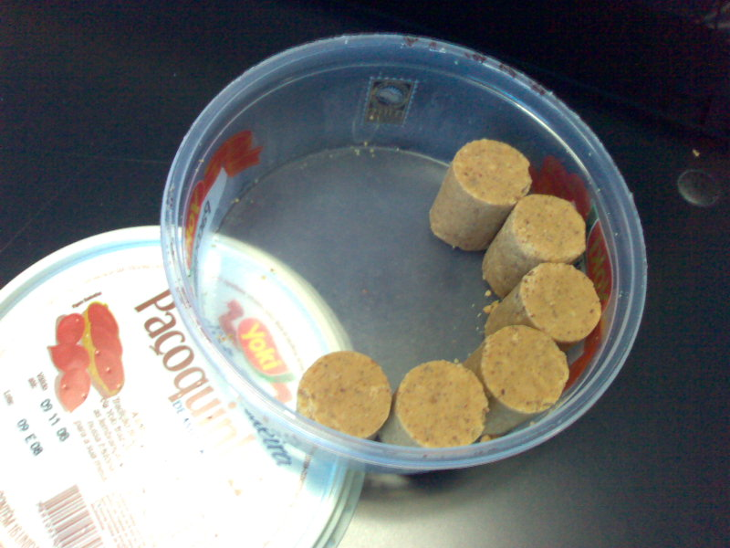 "Paçoquinha de amendoim", a typical brasilian sweet made with peanuts.